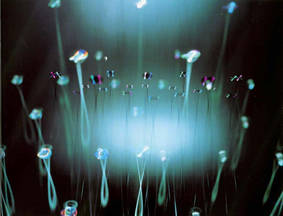 Tsai's Double Diffraction, 1973